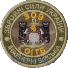 Shoulder Sleeve Insignia of 309th Engineer Battalion, Uknaine